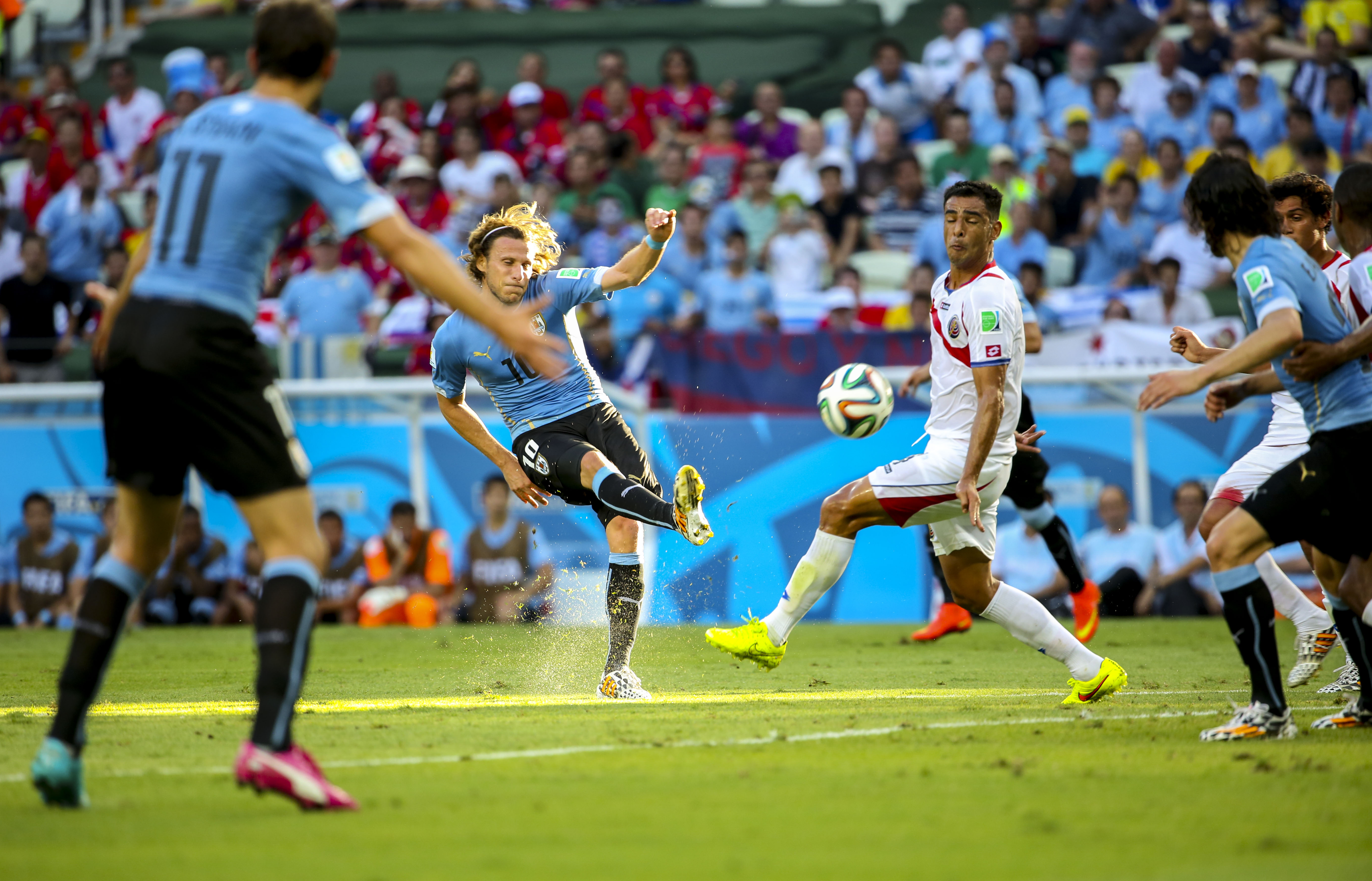 Uruguay and Costa Rica match at the FIFA World Cup 2014-06-14